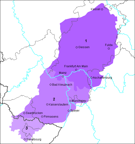 Outline of the Rhine Franconian dialects. The numbers signify subdialects as follows: 1 – Hessian 2 – Palatine German 3 – Lorraine Franconian